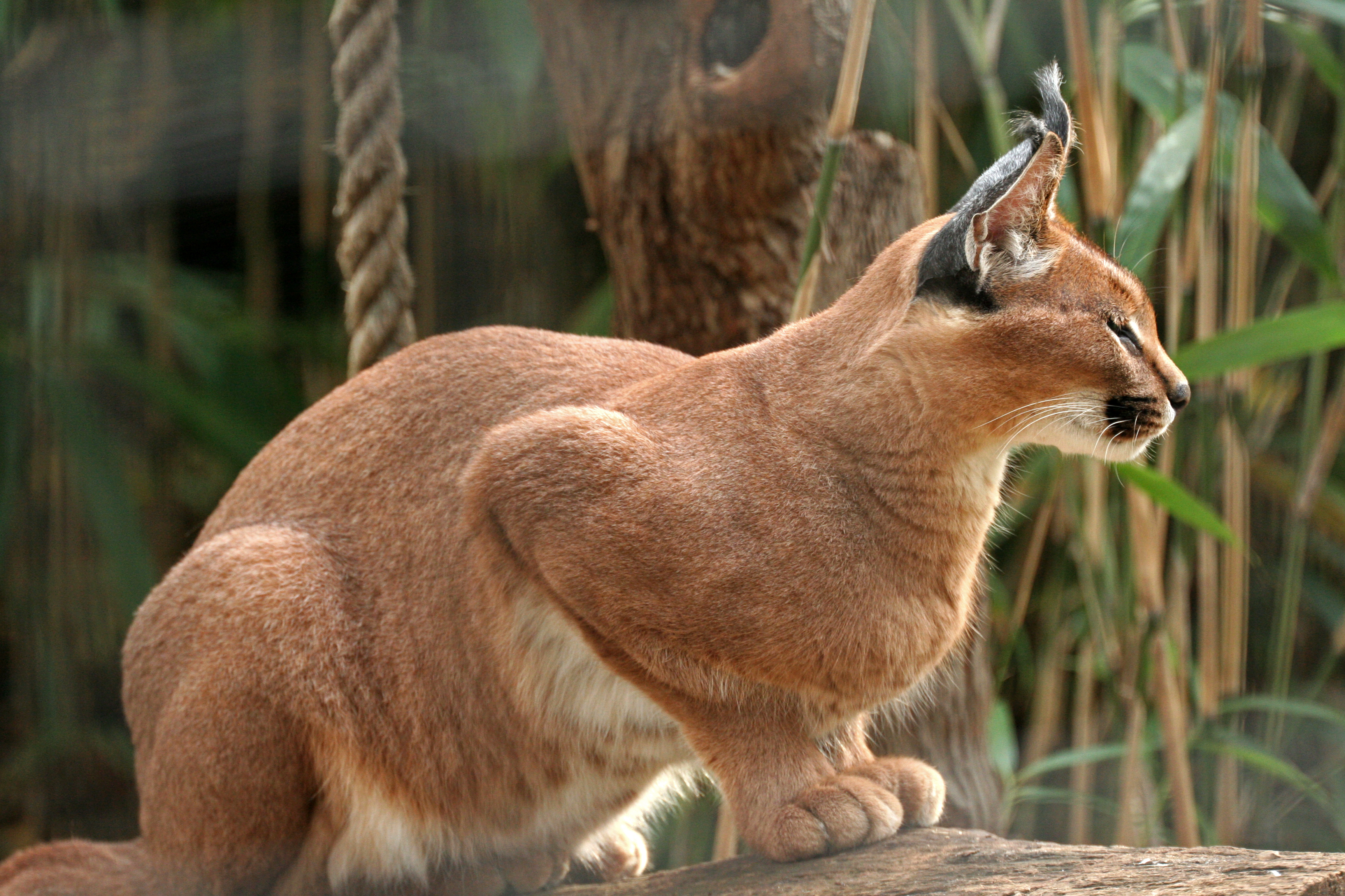 A caracal in National Zoo Washington